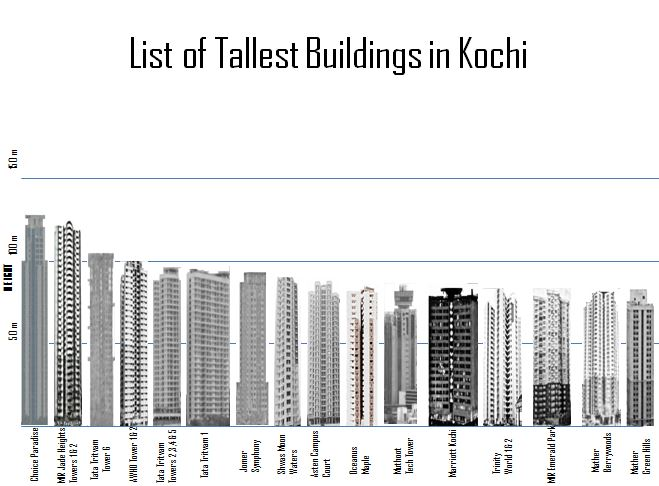 The image is gives an idea about the tallest buildings in Kochi City.